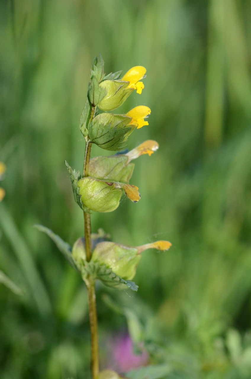 Rhinanthus borbasii